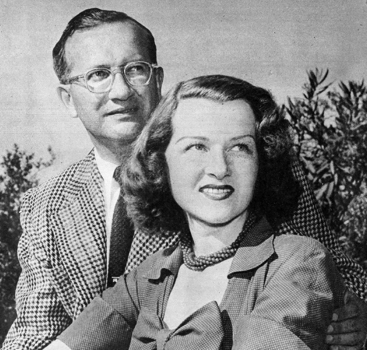 Photo of Jo Stafford and Paul Weston after they had returned from their honeymoon in 1952.